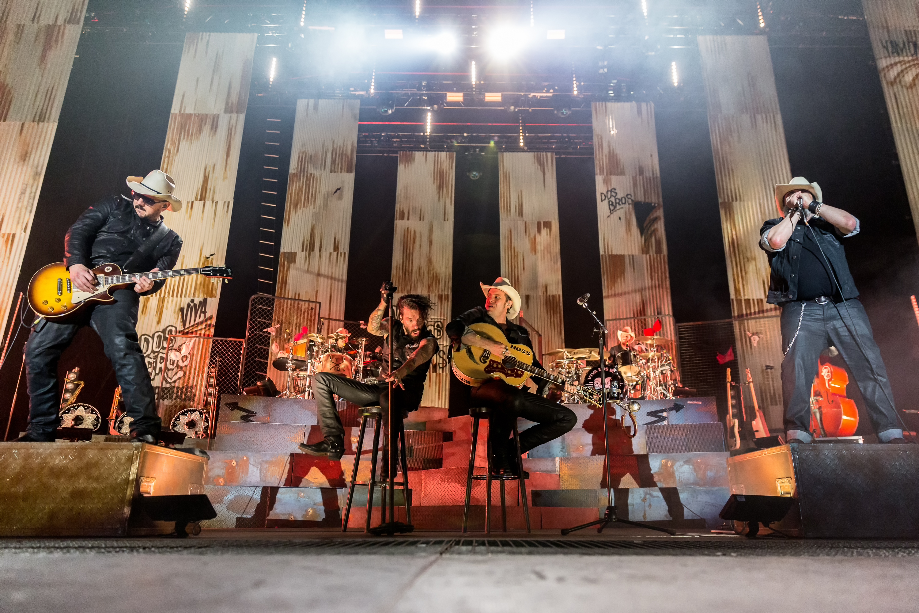 The BossHoss at Arena Show in Koenig Pilsener Arena, Oberhausen, Germany